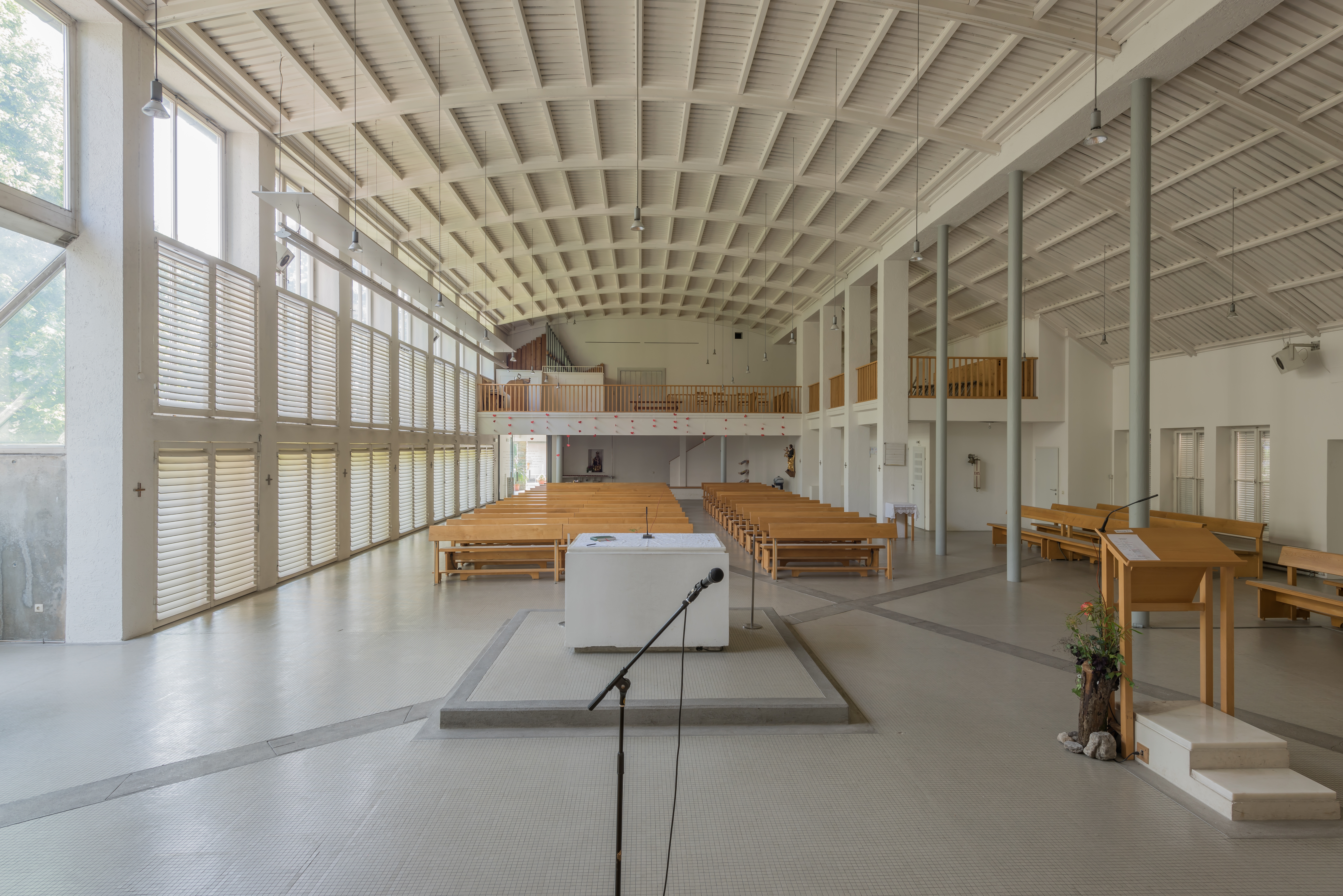 Nave of the Roman Catholic parish church Sacred Heart of Jesus on the Afritsch-Street #76 in Welzenegg, 10th district "Sankt Peter" of the Carinthian capital Klagenfurt on the Lake Woerth, Carinthia, Austria, EU